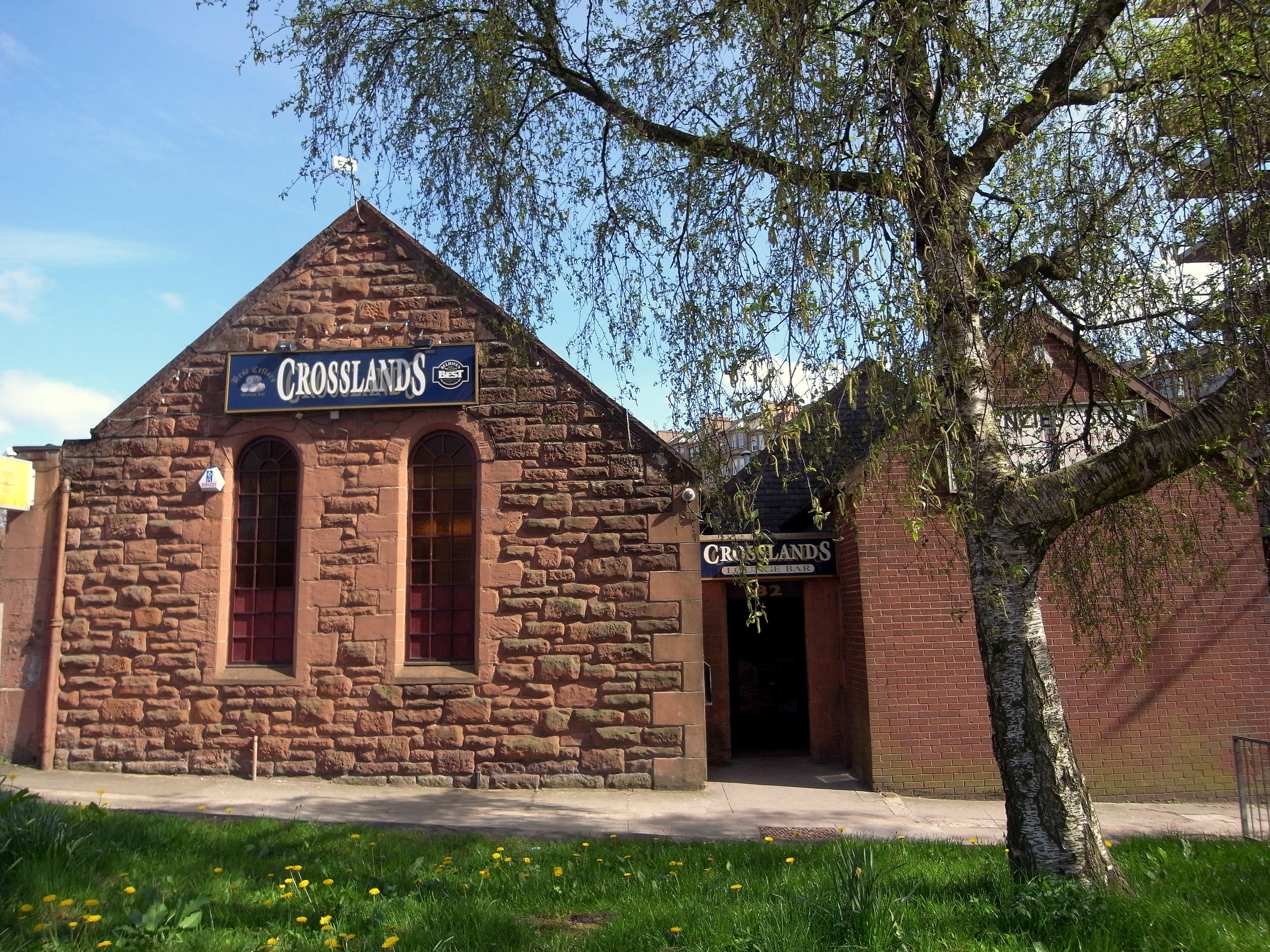 Glasgow. North Kelvinside. Crosslands. 182 Queen Margaret Drive. The Crosslands pub was featured in Trainspotting, Danny Boyle's film from 1996. Iconic scene, where Francis Begbie (played by Robert Carlyle) launched a pint glass from a balcony and caused a brawl. Pub is located in the 19th century building - former Baptist Chapel (see map: New Parliamentary Divisions 1918. New Plan of Glasgow with Suburbs, from Ordnance and Actual Surveys, Constructed for the Post Office Directory. By John Bartholomew.) Available - National Library of Scotland, Pub was reopened under a new name on 2 October 2015. Now called - "So, What Comes Next?"